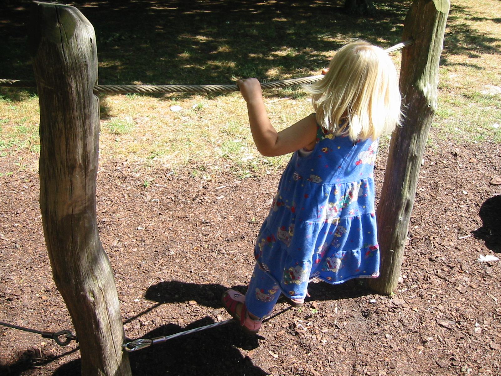 Girl playing a game where you must not touch the ground.